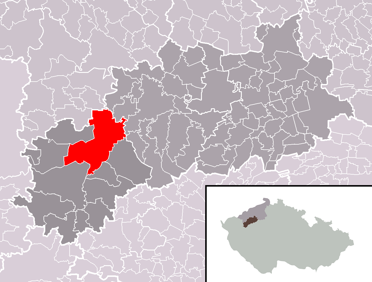 Location of Podbořany town within Louny District and administrative area of Podbořany as a Municipality with Extended Competence.